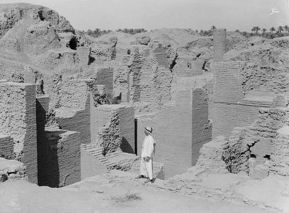 Ishtar Gate, Babylon 1932